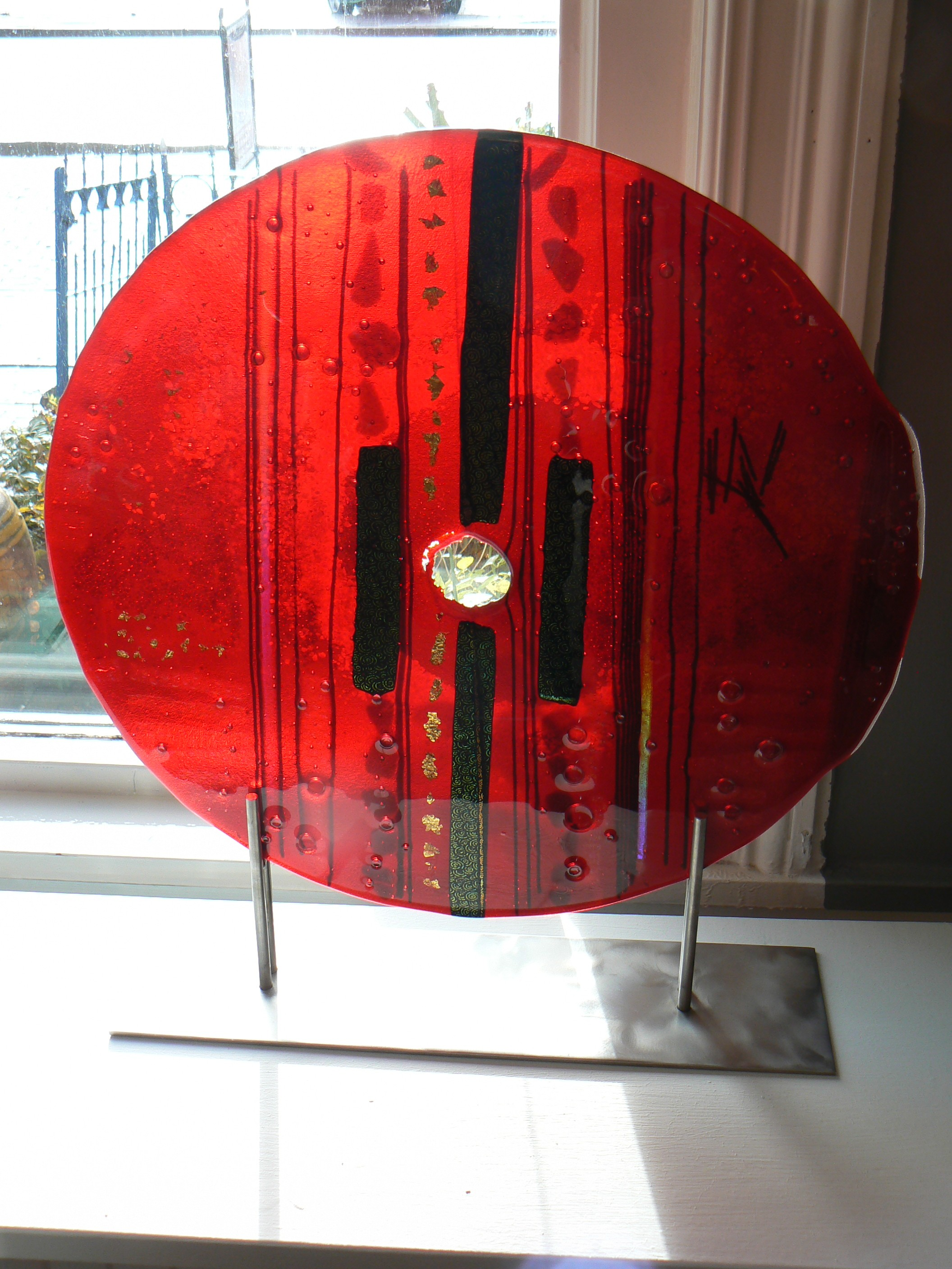 glass art by Lousanne Schuuring in the Netherlands